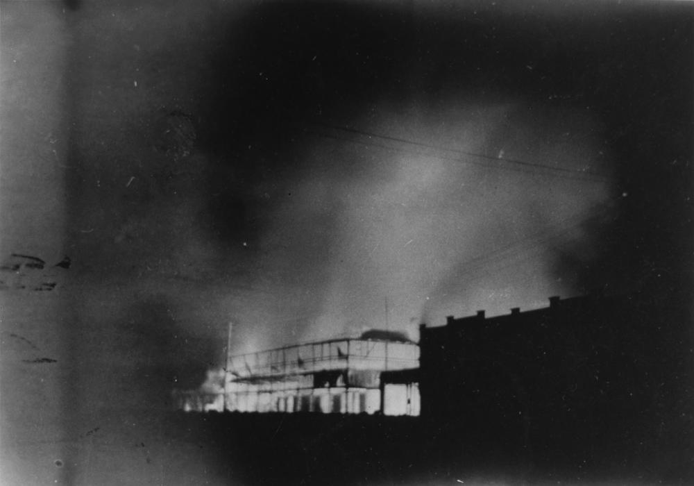 North Gregory Hotel, Winton, burning down in 1946 The North Gregory Hotel was first begun in 1878. It burned down in 1900 then was rebuilt as a two-storey wooden structure shortly afterwards. It burned down again in 1915 and was rebuilt in 1916. It burned down again for the third time in 1946.